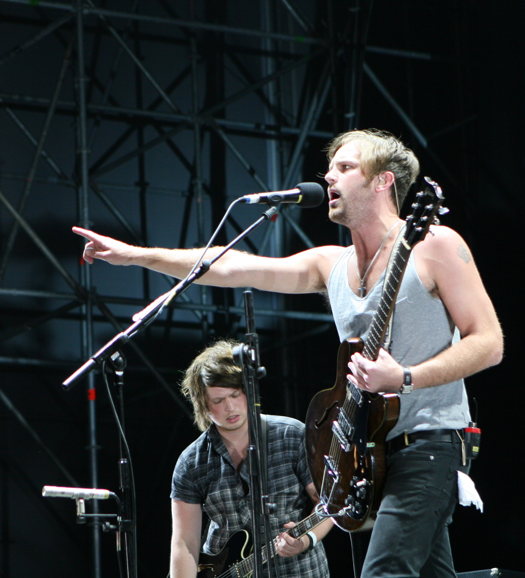 Caleb Followill - Kings of Leon